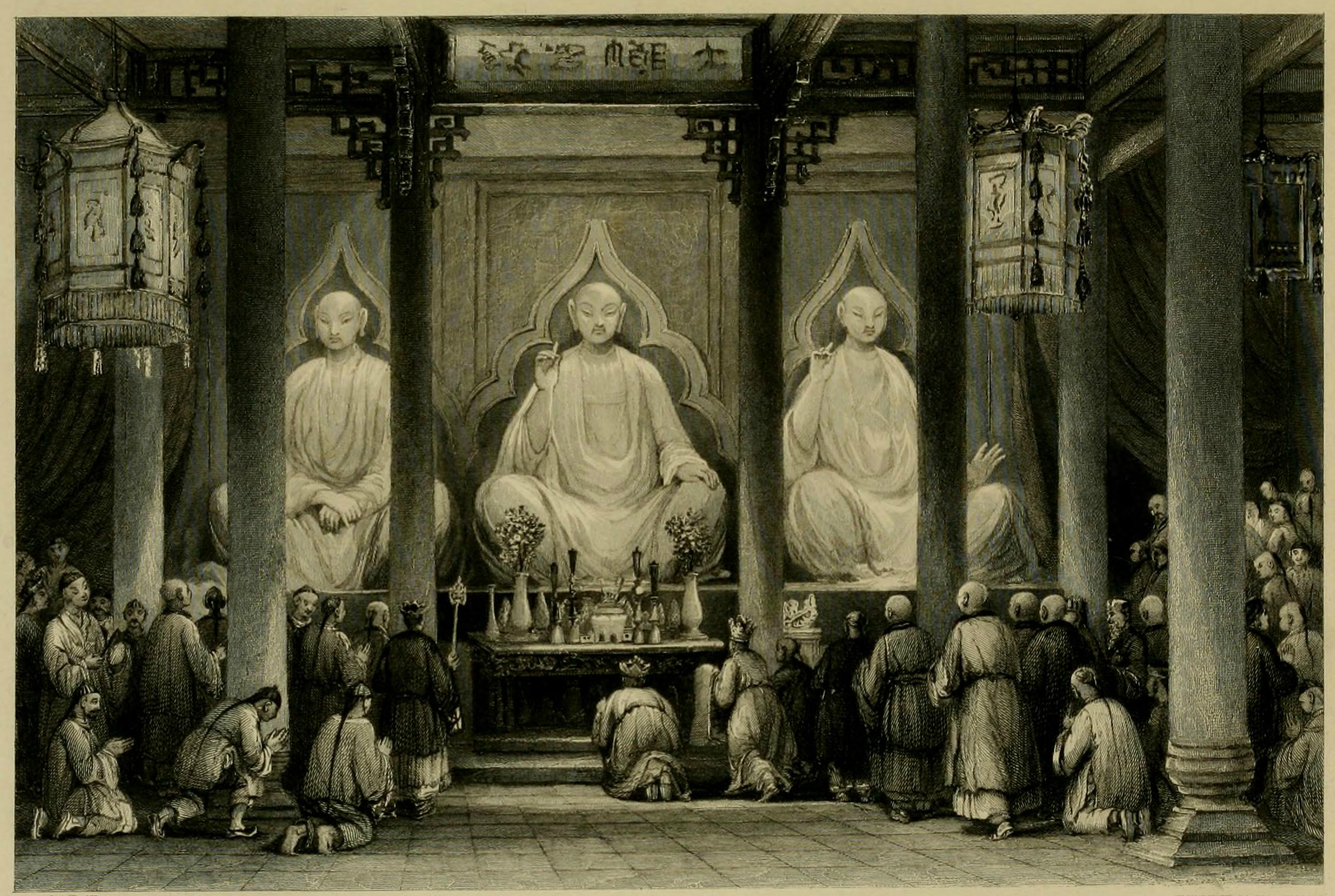 Great Temple at Honan, Canton. (Hoi Tong Monastery on Henan Island in Guangzhou, China)